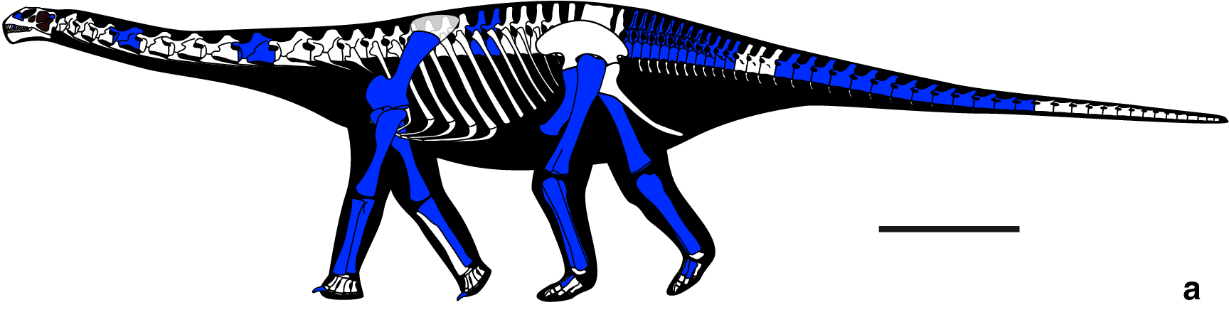 a Skeletal reconstruction of A. greppini. Elements preserved in the material and therefore providing information for the skeletal reconstruction are marked in blue. Because much information is missing from the incomplete skeletal material, the dorsal vertebrae, the proportions and morphology of the cervical vertebrae and the skull were modified from Camarasaurus. b Scaled silhouette drawings of Cetiosauriscus stewarti (in black) and A. greppini (in grey) demonstrating the significant size difference between the two taxa. Scale bar is 1 m